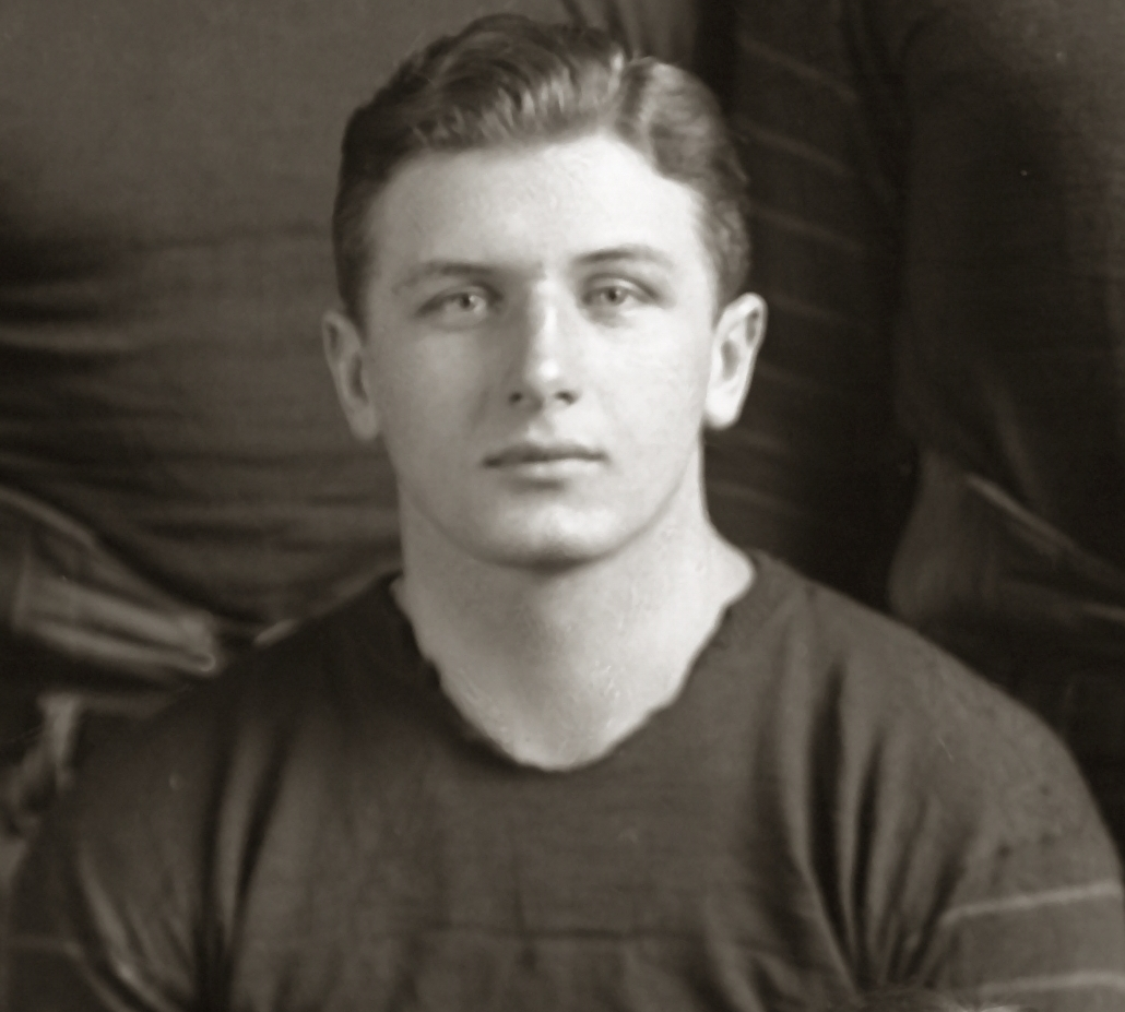 Photograph of Ernie Vick